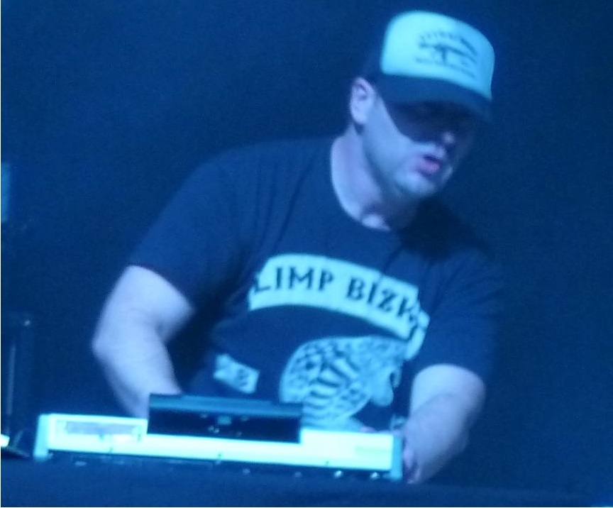 DJ Lethal performing with Limp Bizkit in Chile on July 21, 2011.